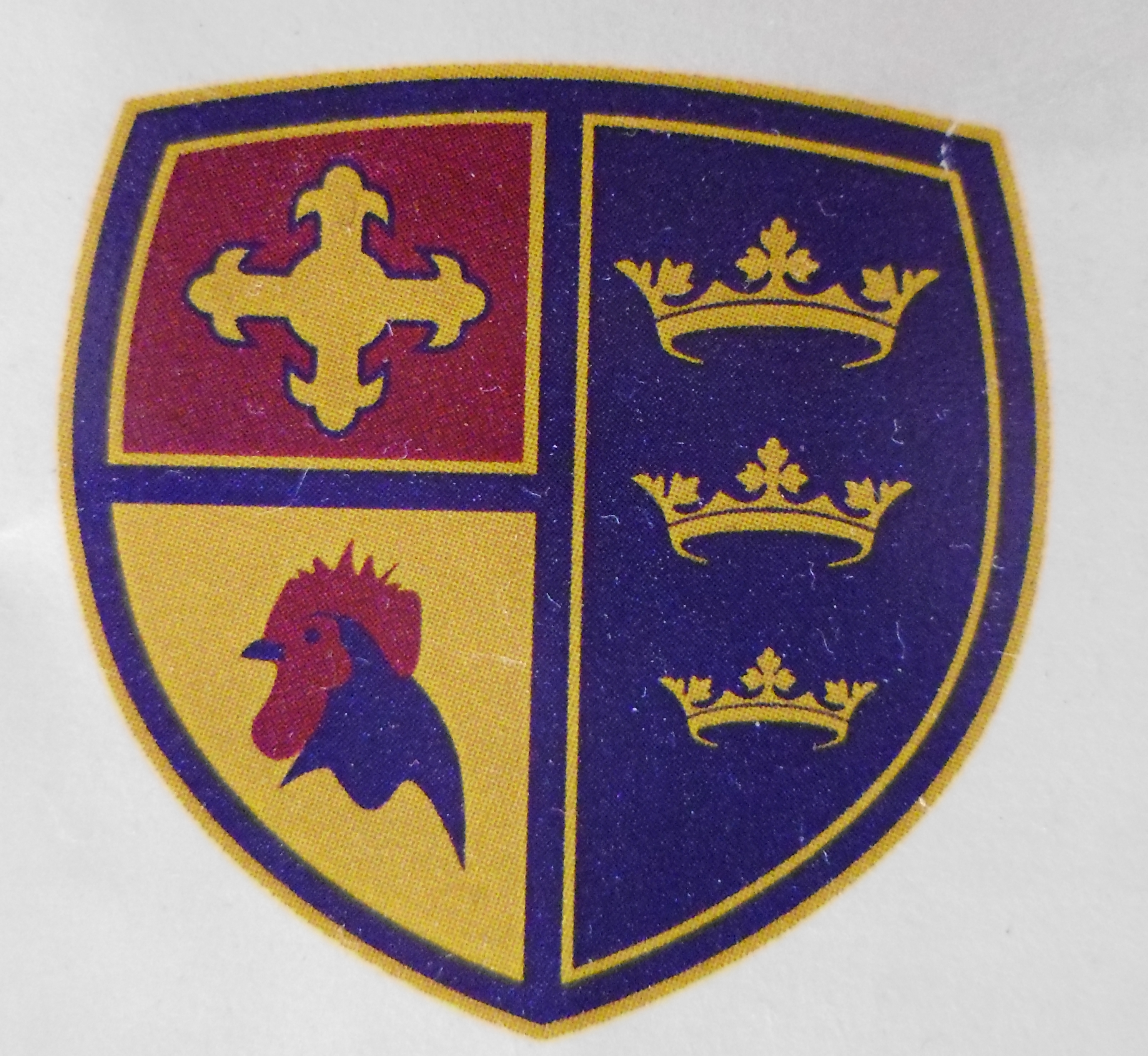 The badge of Hull Collegiate School, printed on the programme leaflet for a prize-giving ceremony in September 2012.